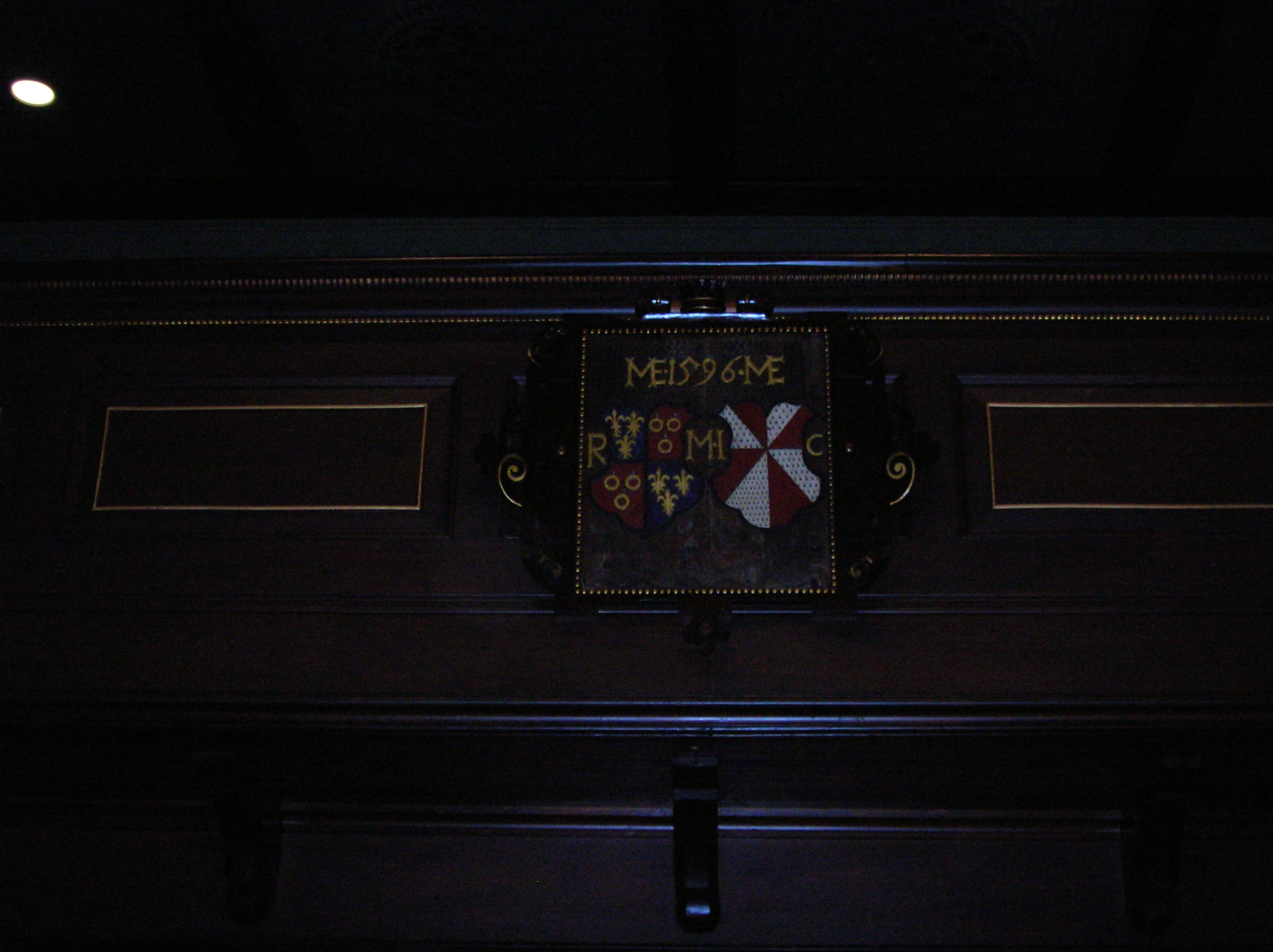 Detail of the Barony of Giffen Coats of arms in Beith Kirk, North Ayrshire, Scotland.